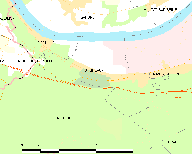 Map of French municipality Moulineaux